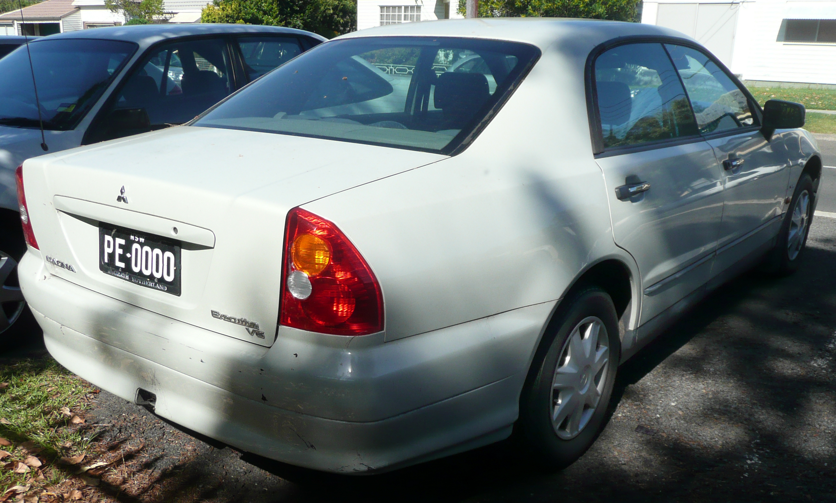 2002–2003 Mitsubishi Magna (TJ Series 2) Executive sedan. Photographed in Sutherland, New South Wales, Australia.